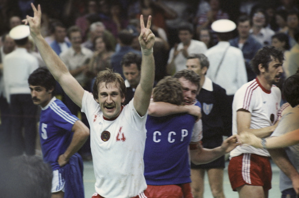 “USSR vs. Yugoslavia”. The 22nd Summer Olympic Games. A handball match between USSR and Yugoslavia. Soviet handball players celebrating their victory. Player #4 Sergei Kushniryuk (left).